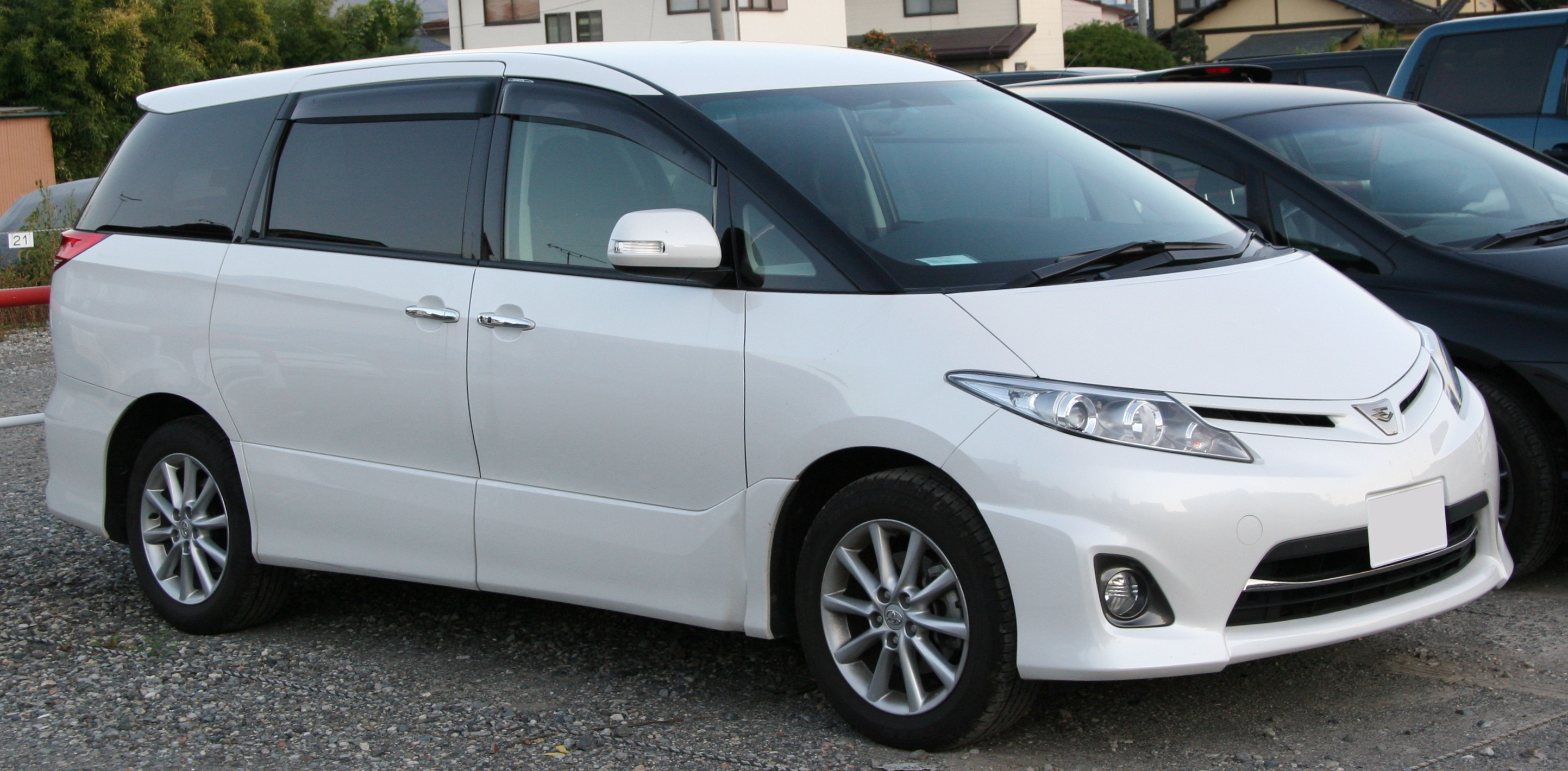 Toyota Estima